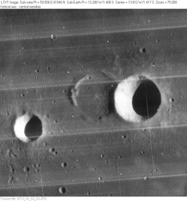 LO-IV-113H Turner is the large shadowed crater on the right. The ghostly ring to its west is unnamed. The 7-km diameter crater near the left margin is Turner F.